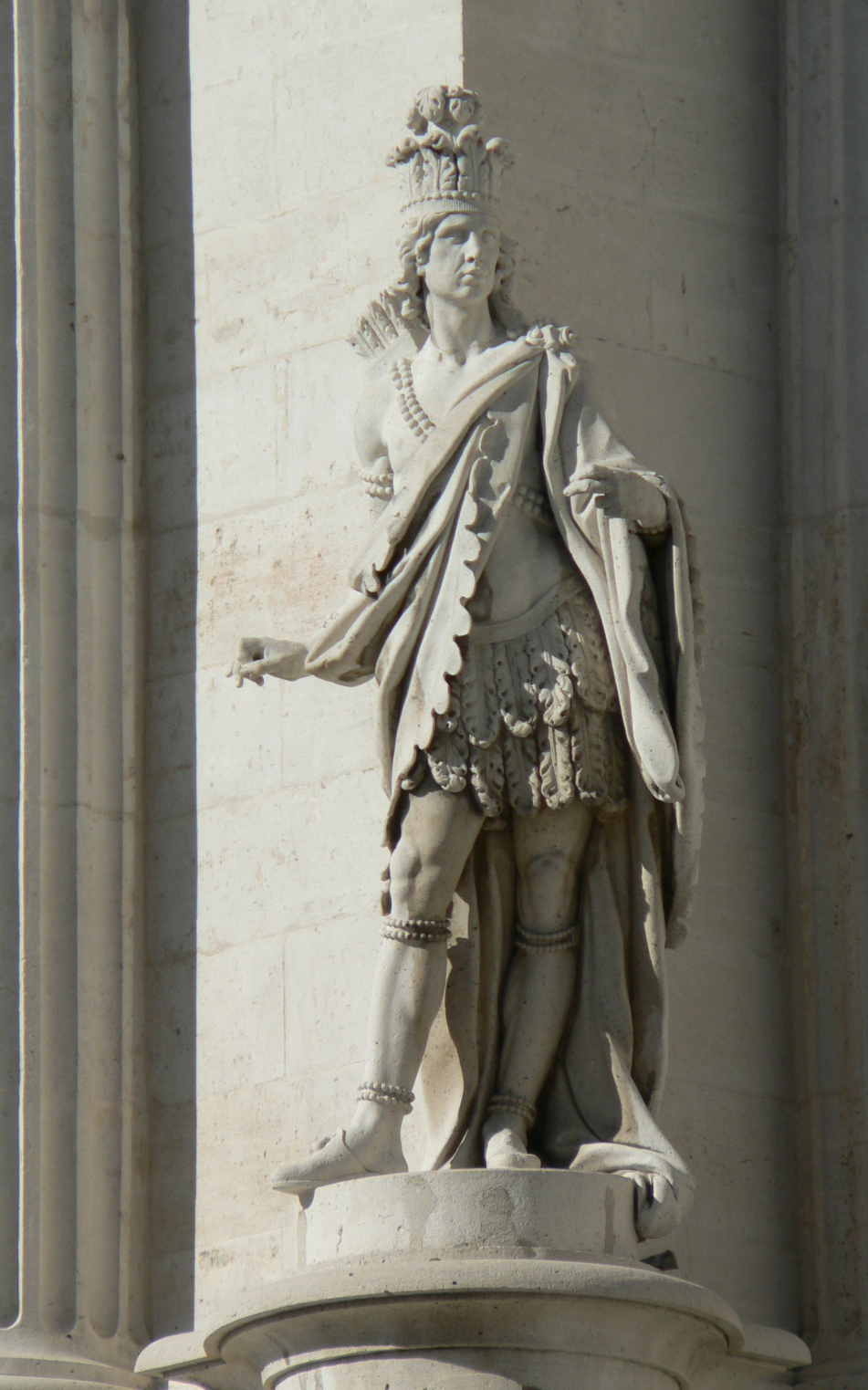 Statue of Moctezuma, known like Moctezuma II, was sovereign of the Aztec Empire of Mexico, (1502-1520). In the South facade of the Main Floor of the Royal Palace of Madrid.